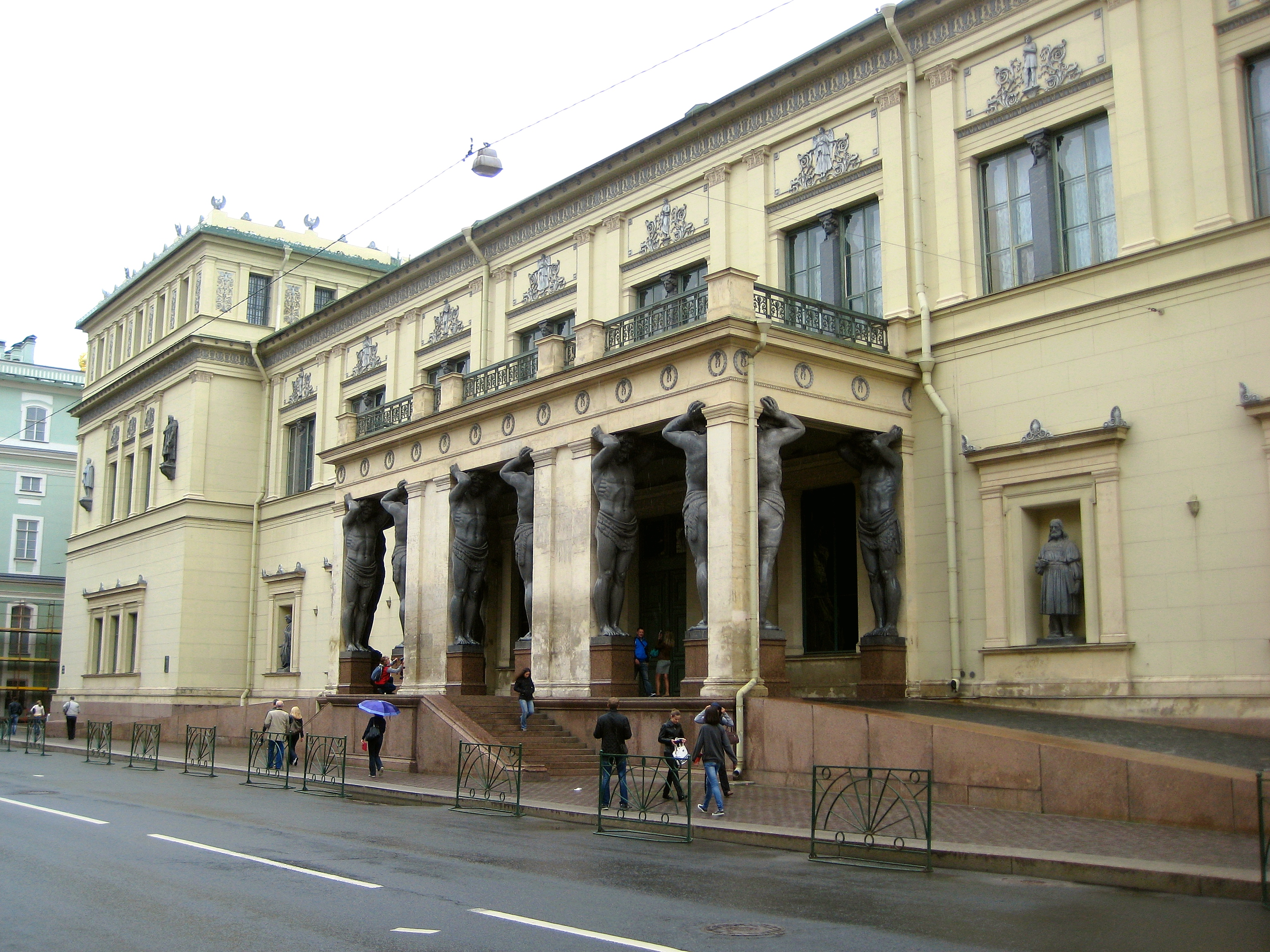 New Hermitage (architects: L. von Klenze, V.P. Stasov, N.E. Efimov), 1842-1851: Millionnaya Street, 35 / Winter Canal Embankment, 1. Central District, St. Petersburg